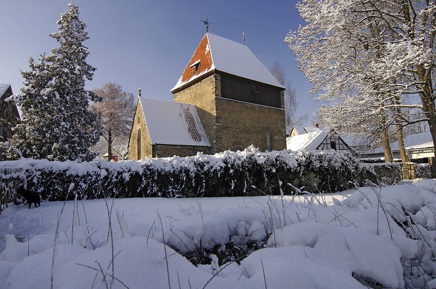 Church of Hausen (Arnstadt), Germany